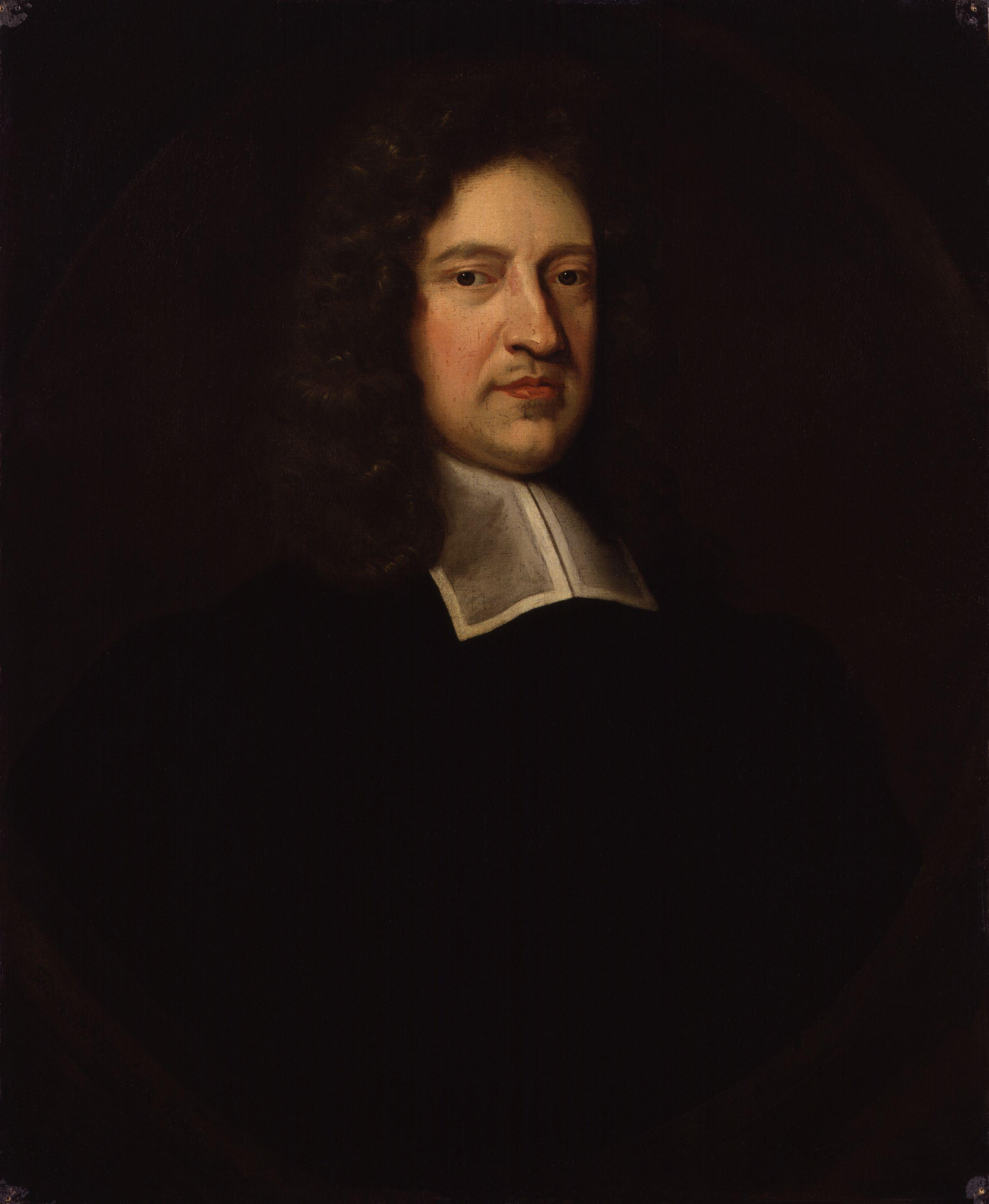 John Howe, after Sir Godfrey Kneller, Bt (died 1723). All images in this batch have been confirmed as author died before 1939 according to the official death date listed by the NPG.